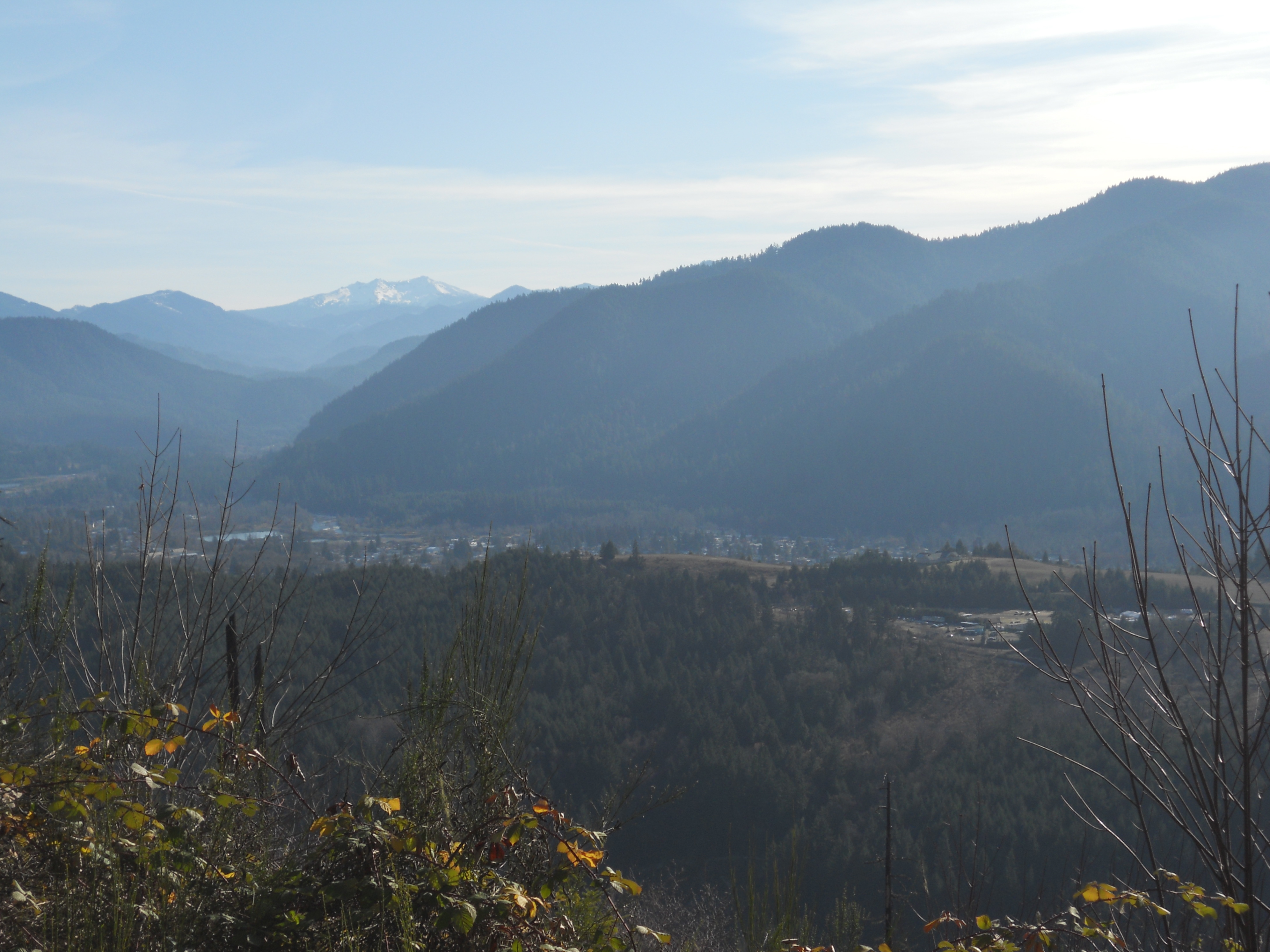 The city of Oakridge, in Lane County, Oregon, looking southeast from the North Fork Trail, with snow-capped Diamond Peak in the distance